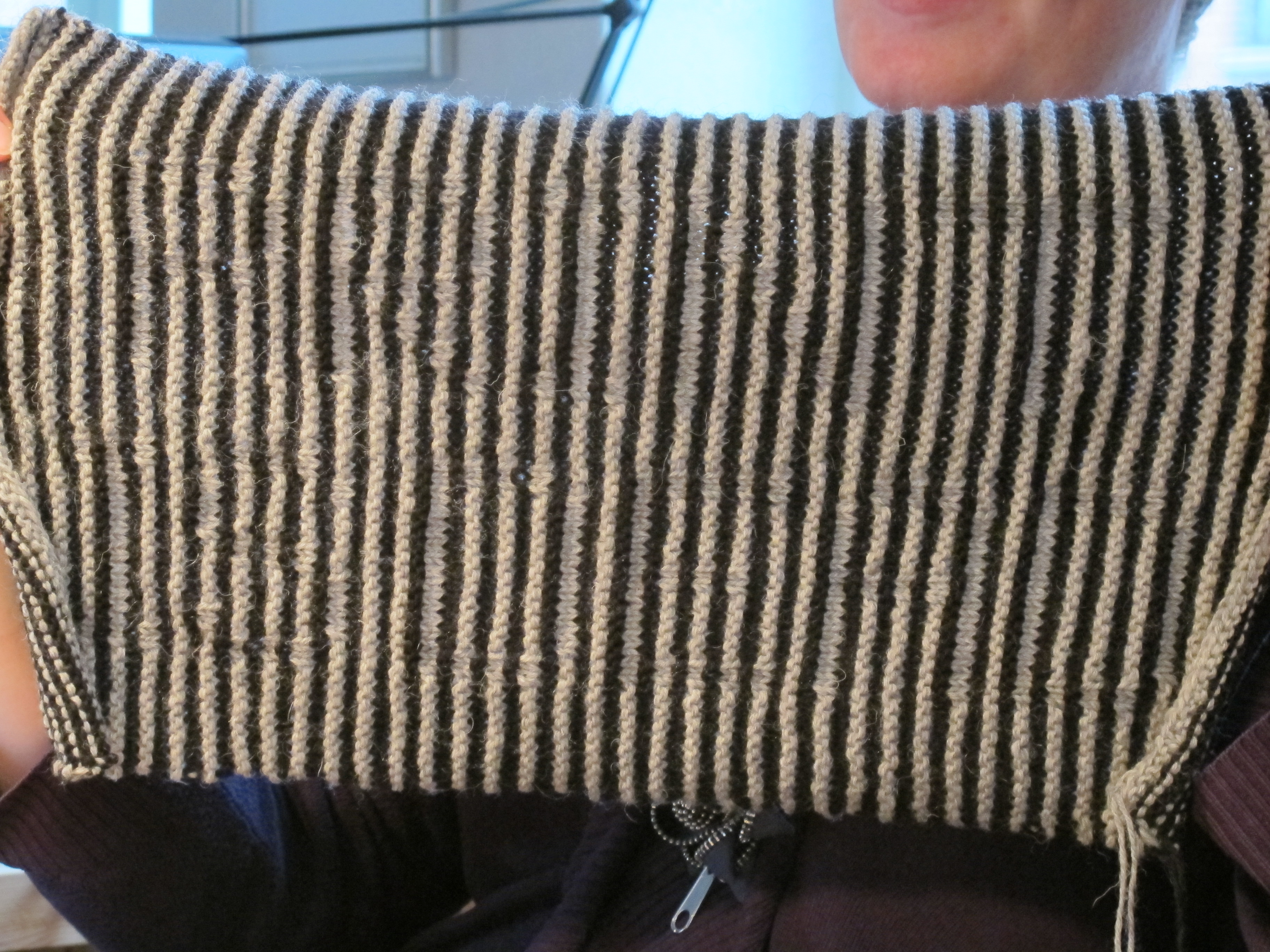 Shadow knitting viewed from front. To read the message knit into the fabric, it must be viewed at an angle.